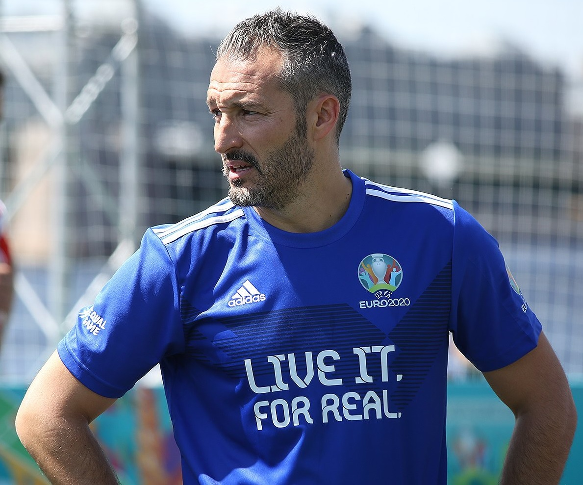 Gianluca Zambrotta at a promotional event for UEFA Euro 2020 in Saint Petersburg, Russia.